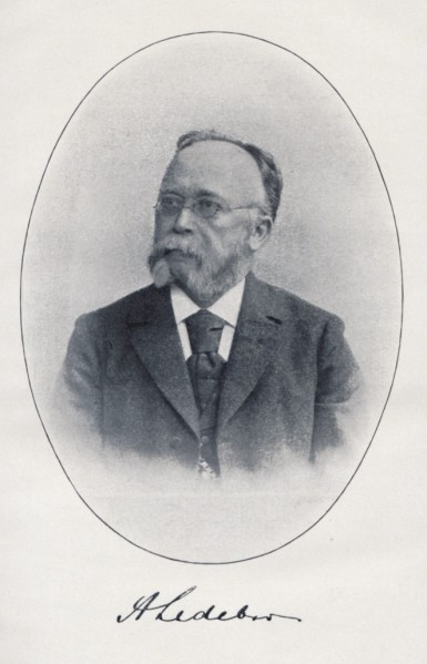 Adolf Ledebur, german chemist, metallurgist and technologist (*1837; †1906)